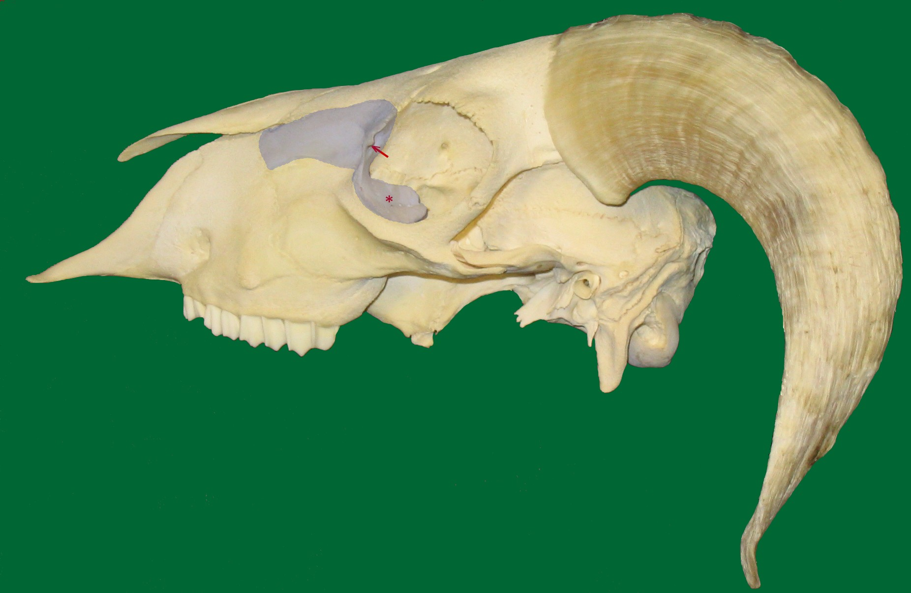 Skull of a sheep. Lacrimal bone (Os lacrimale) coloured. Fossa sacci lacrimalis (arrow), Bulla lacrimalis (*)